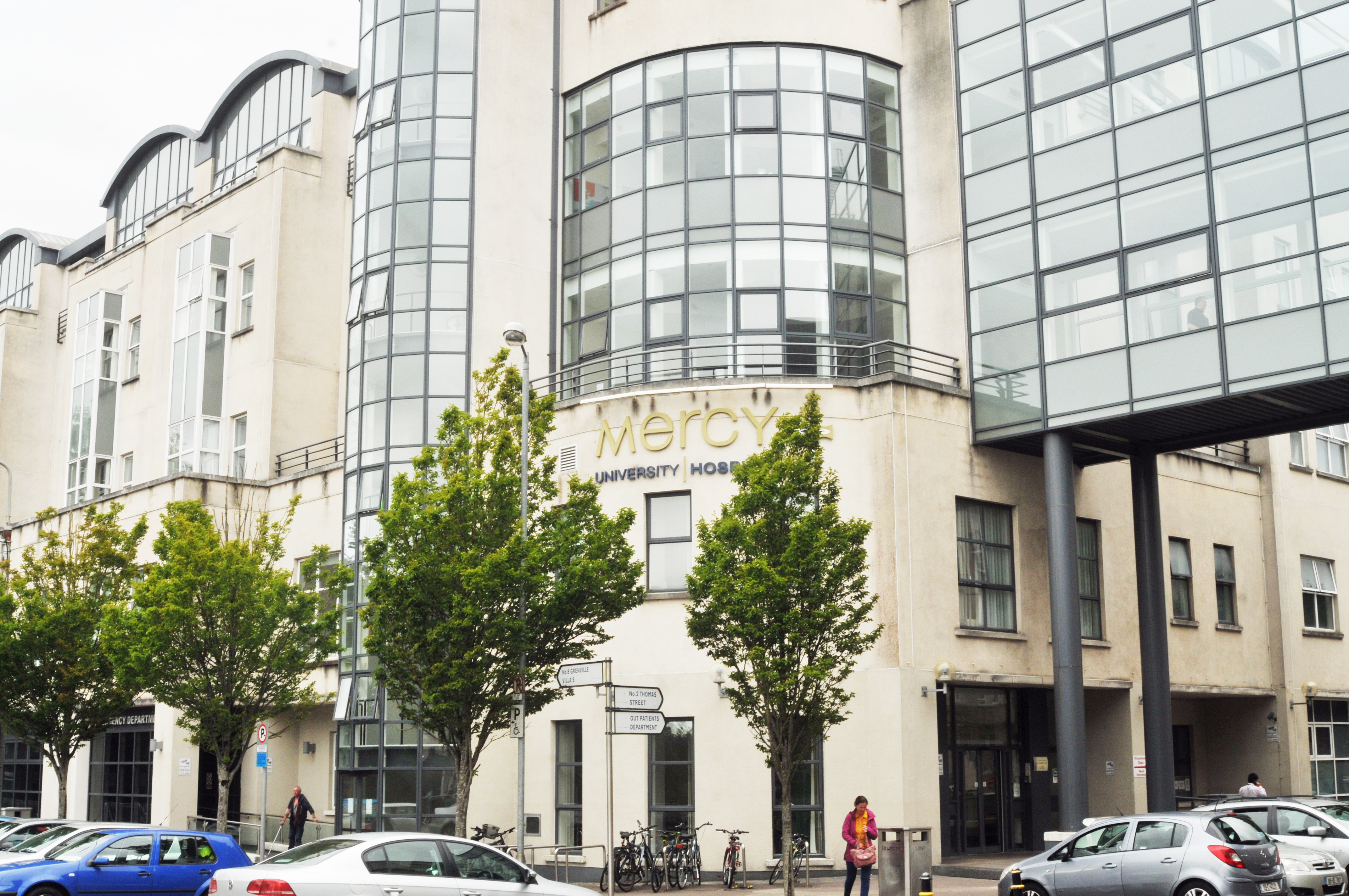 Mercy University Hospital Cork City